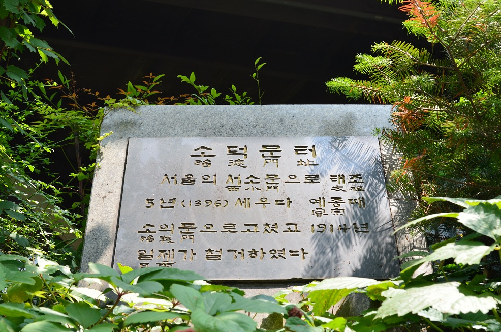 Marker for Souimun Gate, also known as Southwest Gate or Seosomun, Seoul, South Korea. Photographed July 8, 2012.